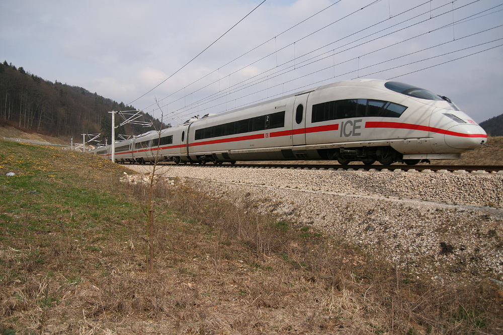 An ICE 3 (DB class 403) on the Nuremberg–Ingolstadt high-speed railway line, probably at 300 km/h. This train was headed for Munich, near the south entrance to the Euerwang-tunnel